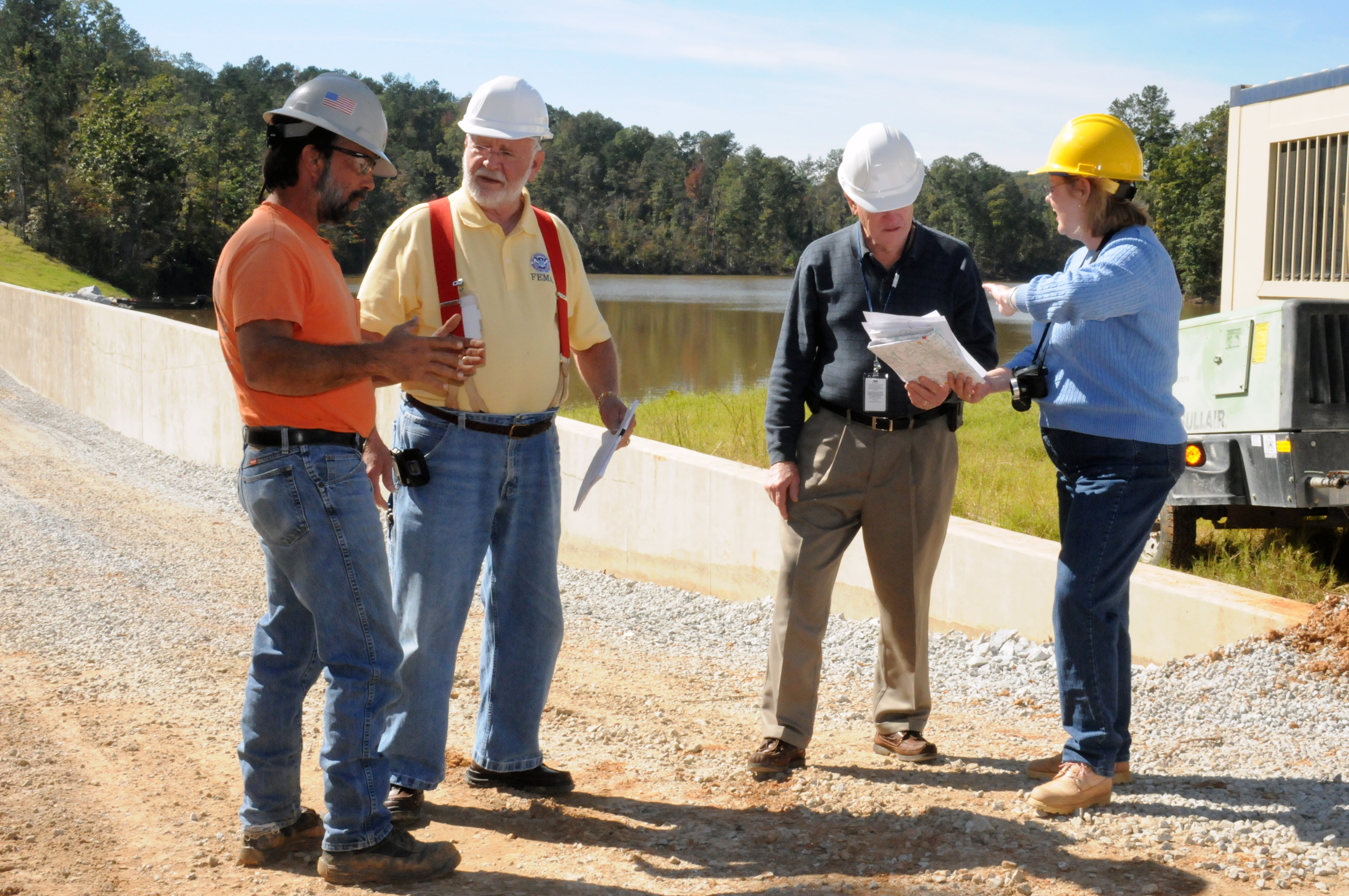 Douglasville, GA, October 21, 2009 -- At the Douglas County Dog River Reservoir, County Contractor Kevin Stelmack(L), FEMA Public Assistance Coordinator Pressly Beaver, FEMA Technical Assistance Coordinator Frank Lockridge, and County Water and Sewer Authority Project Engineer Kathy Macias confer during inspection of the dam which failed during September's severe storms and flooding. FEMA Public Assistance funds have been requested to pay a share of repair costs. George Armstrong/FEMA